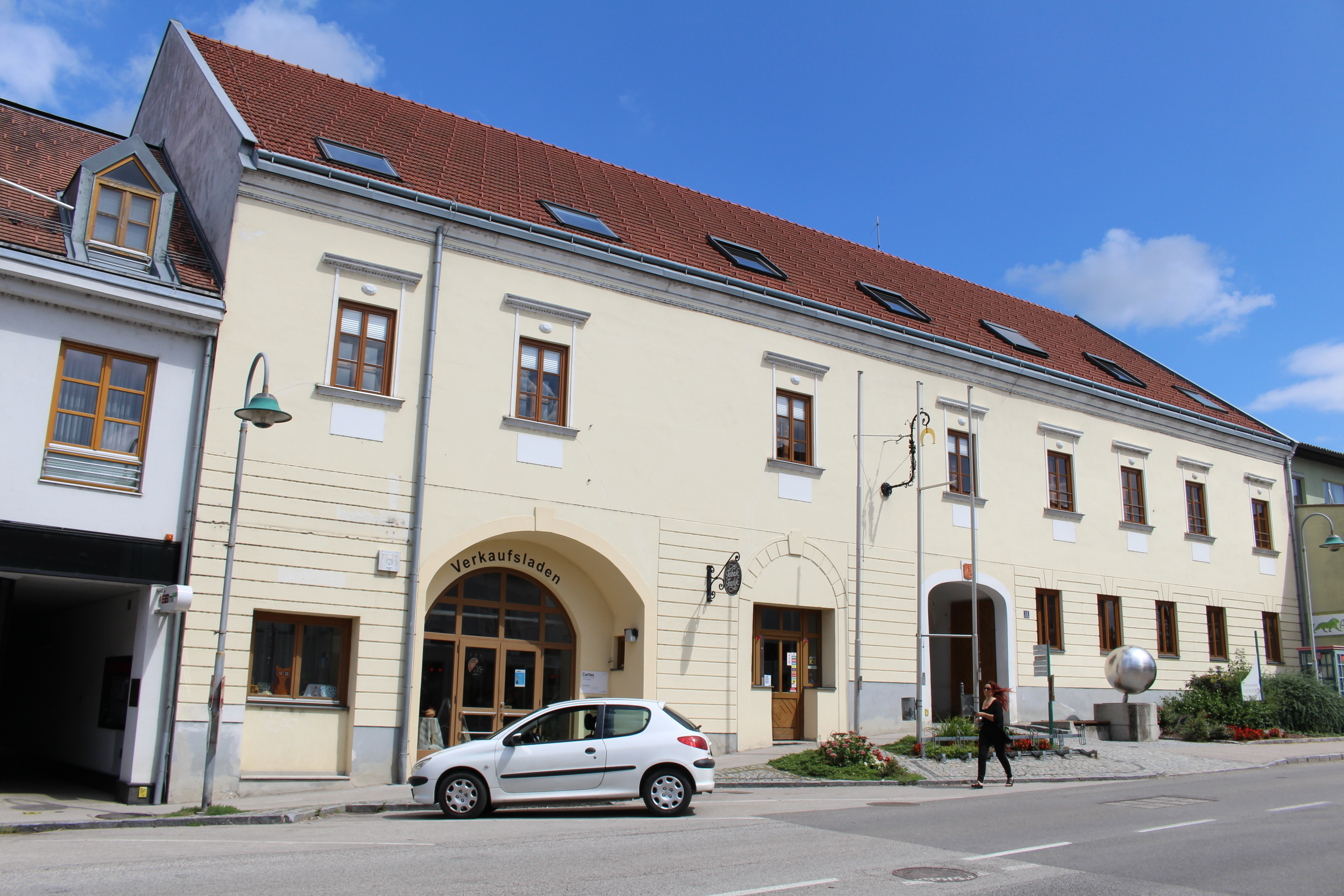 Town hall of Loosdorf, Austria.